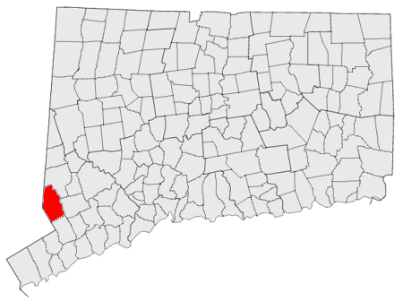 Locator map for Ridgefield, Connecticut I made this.